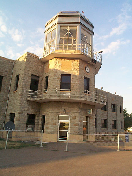 Holman Field Administration Building control tower 644 Bayfield Street Saint Paul, Minnesota Architect: Clarence W. Wigington Built: 1939 Picture taken by Joe Hoover, 2001